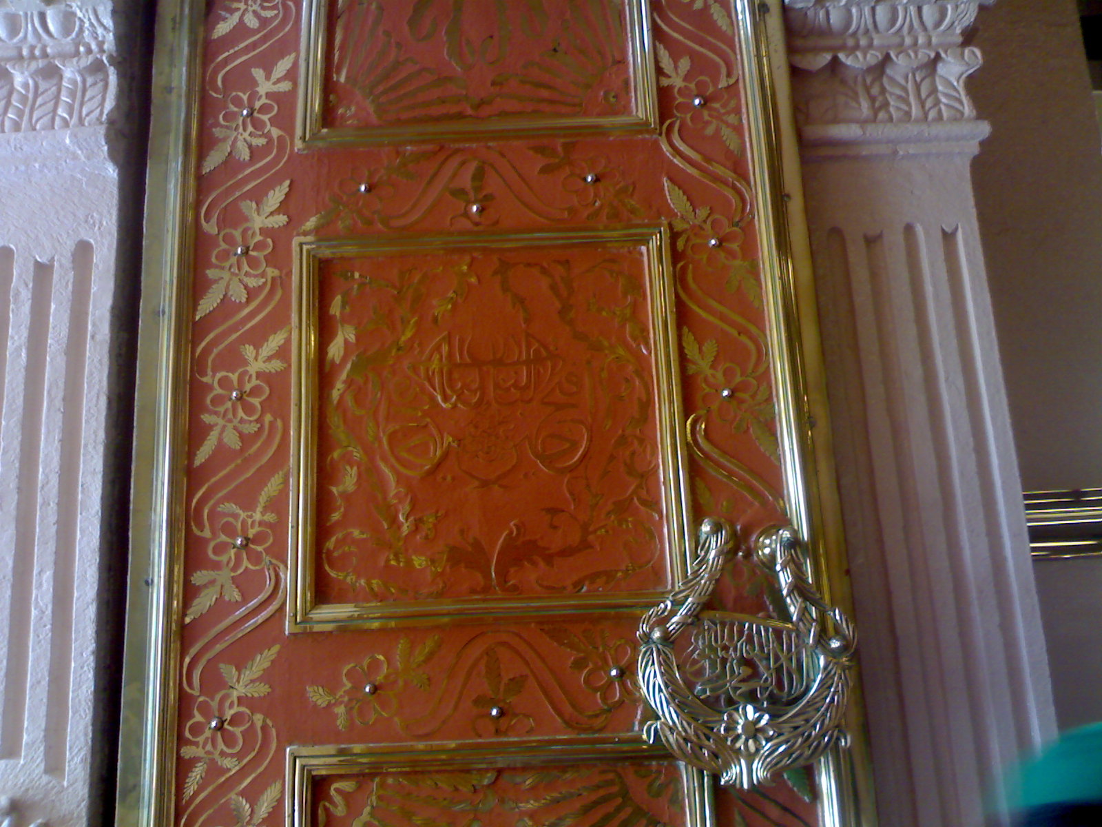 Al-Masjed Al-Nabawi Bab Al-Salam